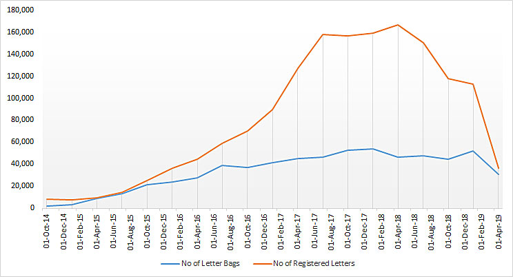 Graph of the weekly processing of mail bags and registered letter through the Home Postal Depot RE 1914-19